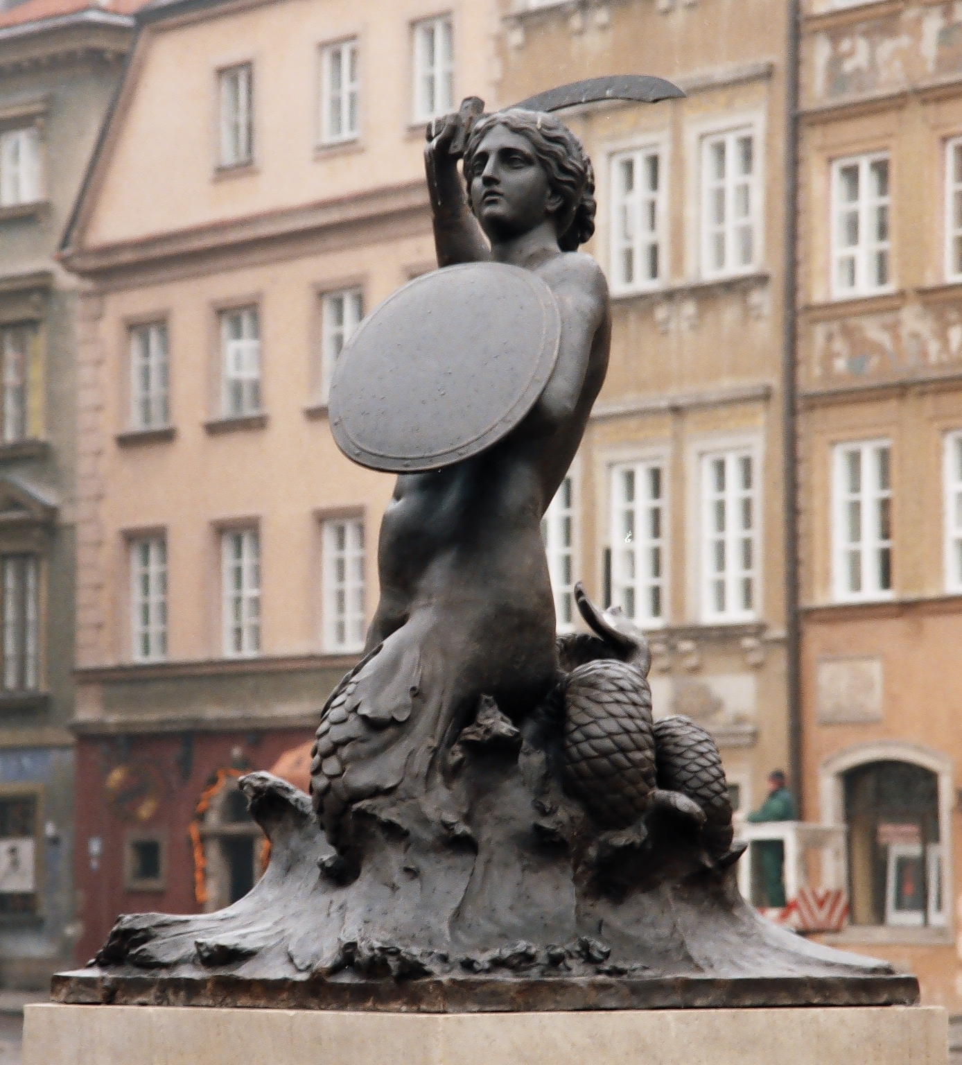 The monument of Warsaw's Syrenka, Old Town, Warsaw, Poland